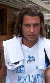 Cristiano Doni, italian football player